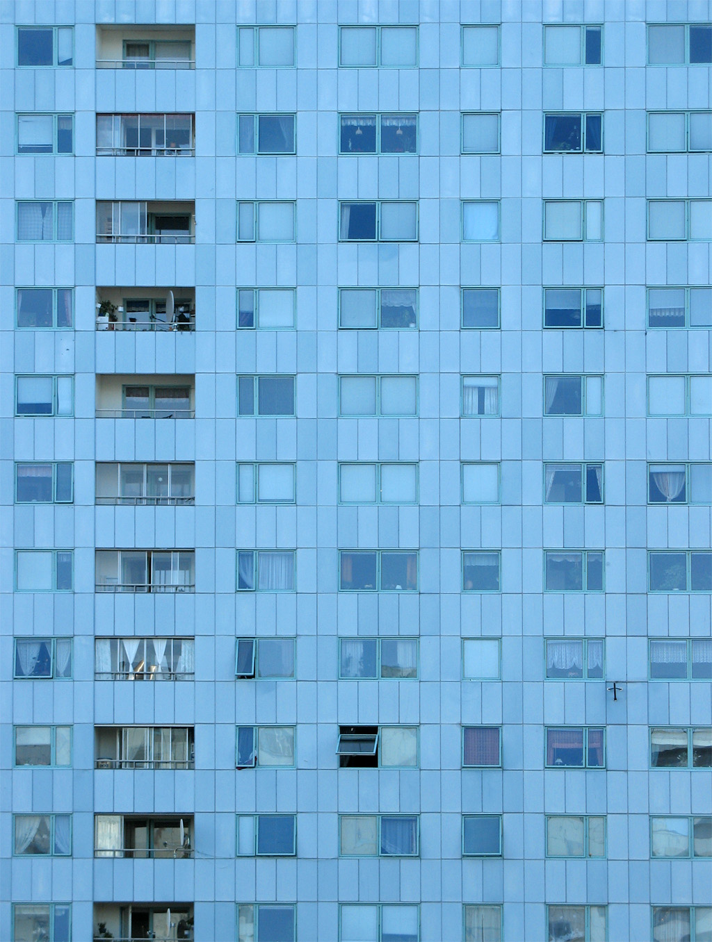 Yes, the building really is this blue.